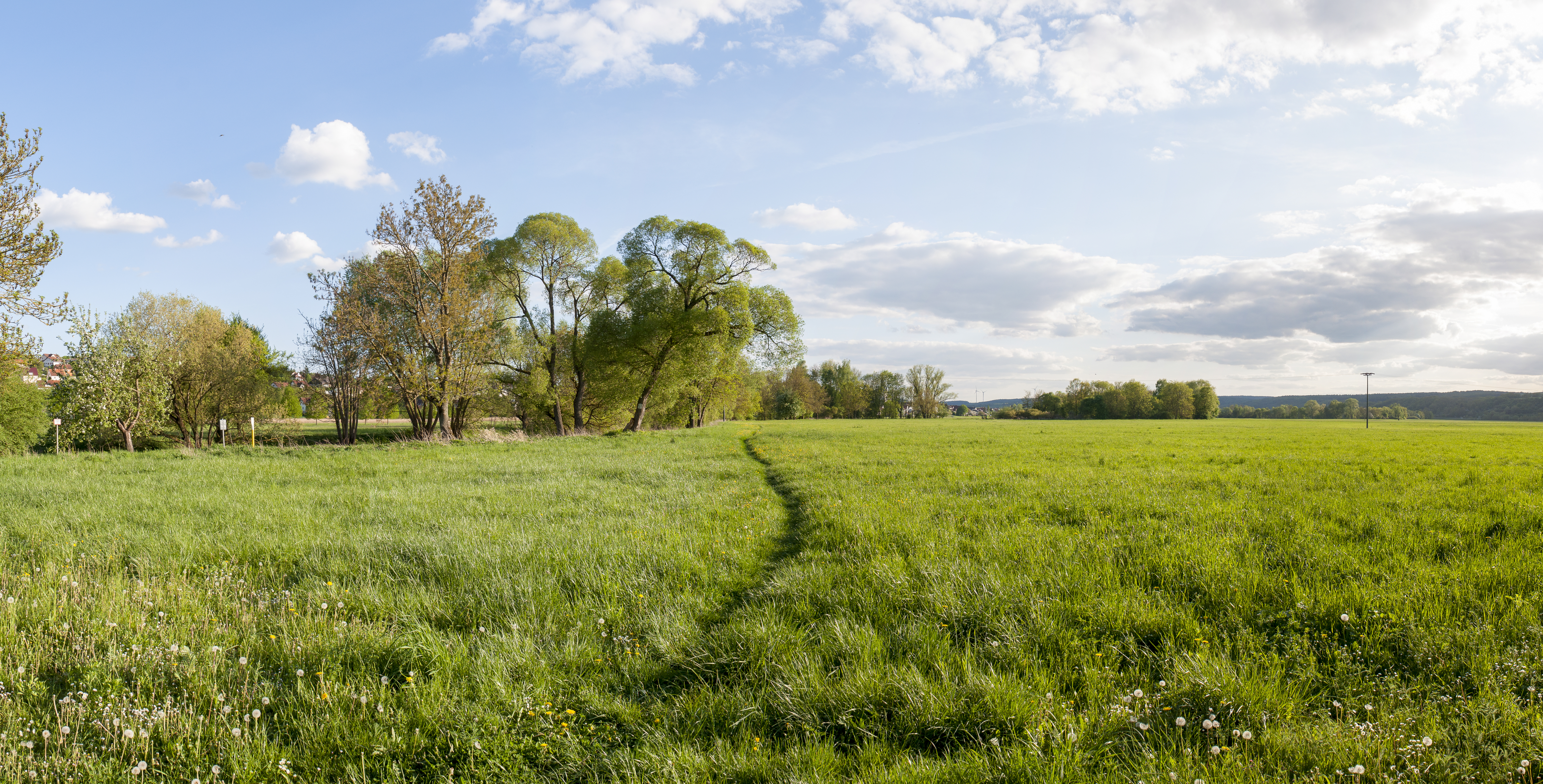 Naturschutzgebiet Saalewiesen Bad Neustadt a. d. Saale beim Schillerhain